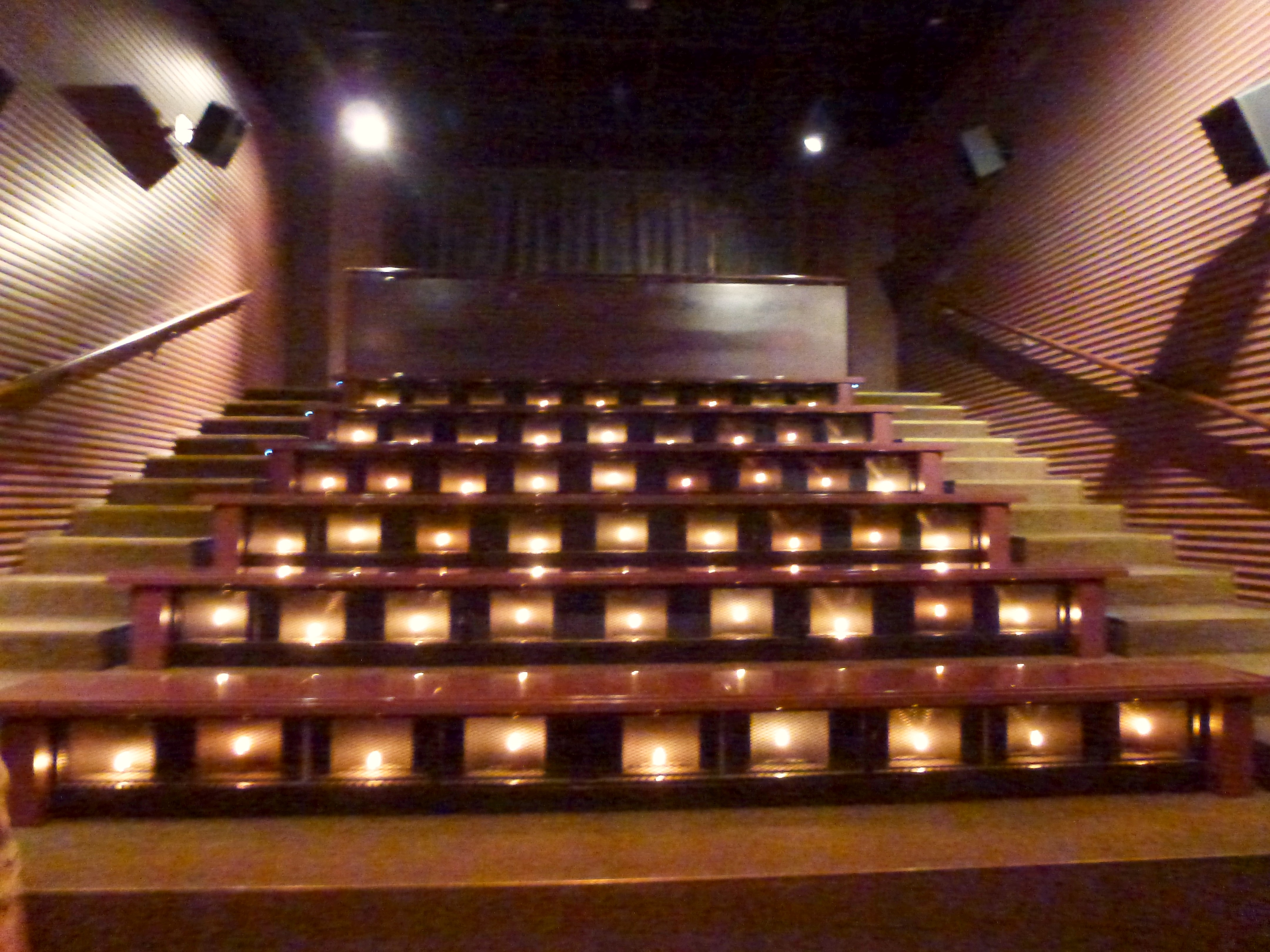 Movie room in the Tale of Genji Museum